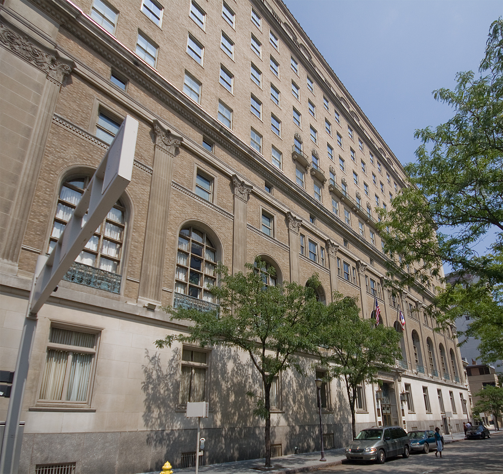 Phoenix Building in Cincinnati, Ohio. Photo by Greg Hume